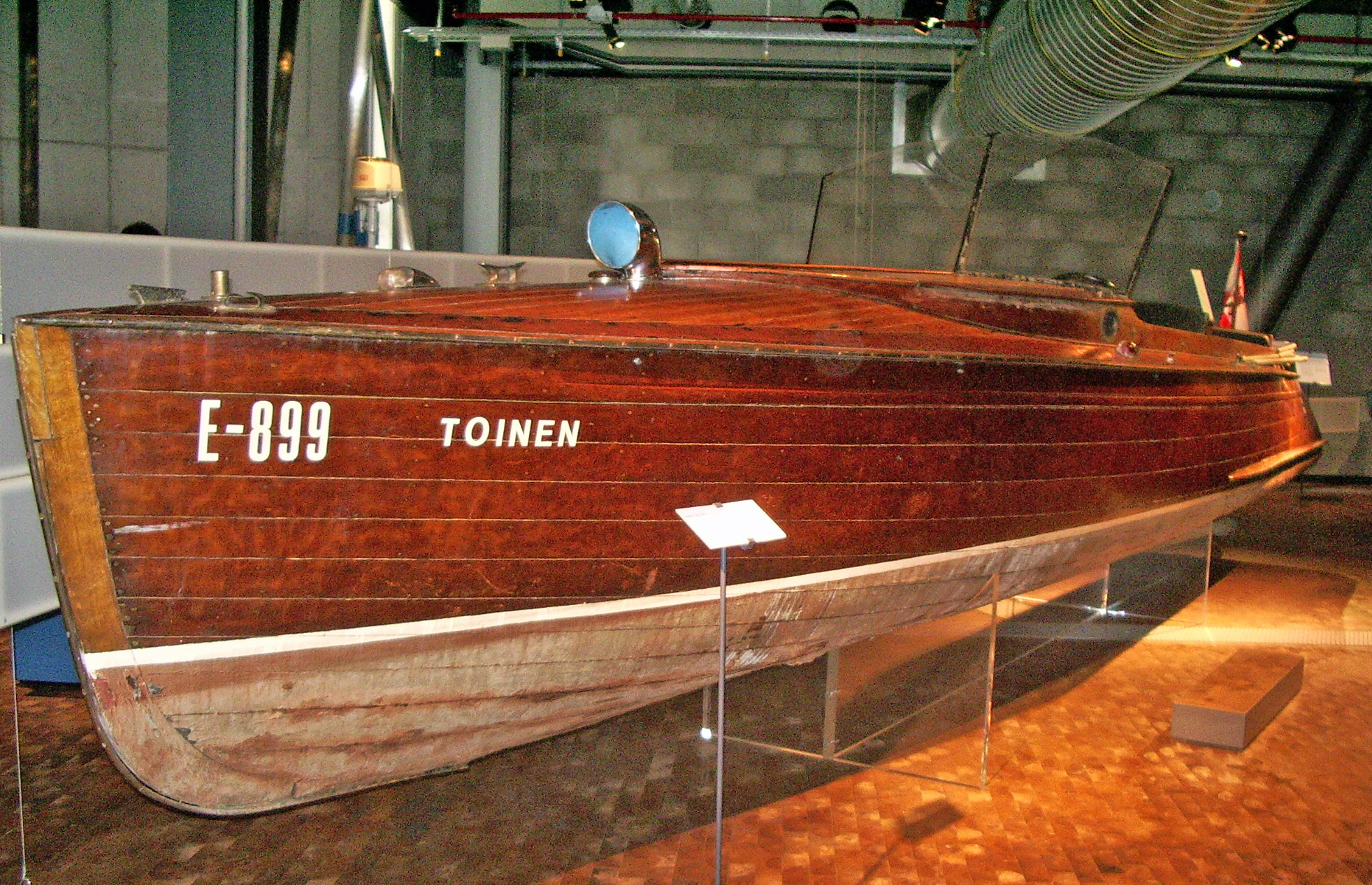 Das Autoboot Toinen aus dem Jahr 1934, im Deutschen Technik Museum Berlin. 6-Zylinder Reihenmotor, 2473 ccm, 58 PS.